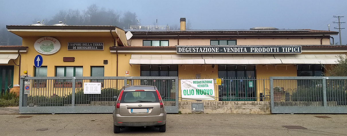 Brisighella (RA, Italy): shop of the co-operative winemaker and oilmill (Cooperativa Agricola Brisighellese)